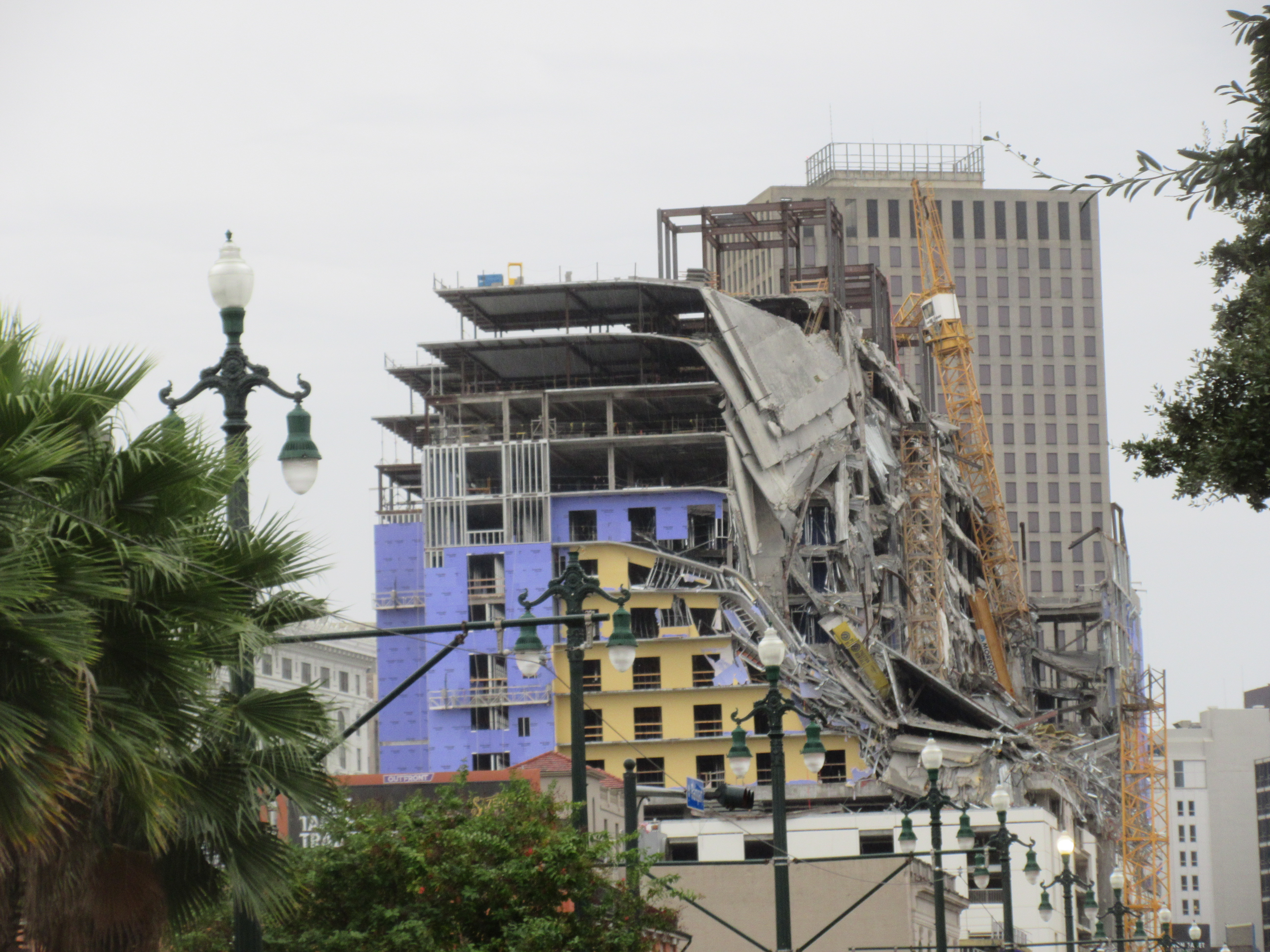 New Orleans. View towards the partially collapsed Hard Rock Hotel building the morning after explosive demolition of damaged cranes attached to the building. Seen from Rampart Street.